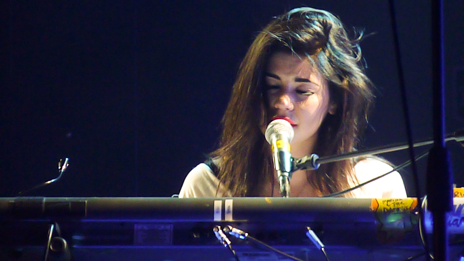 Marina and the Diamonds performing "Obsessions" at the Assembly Rooms.